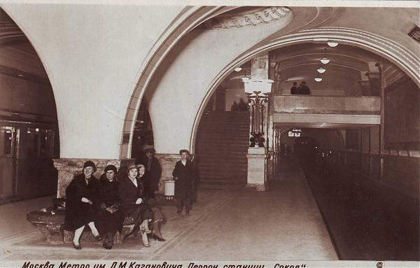 Sokol metro station in 1938. Moscow.